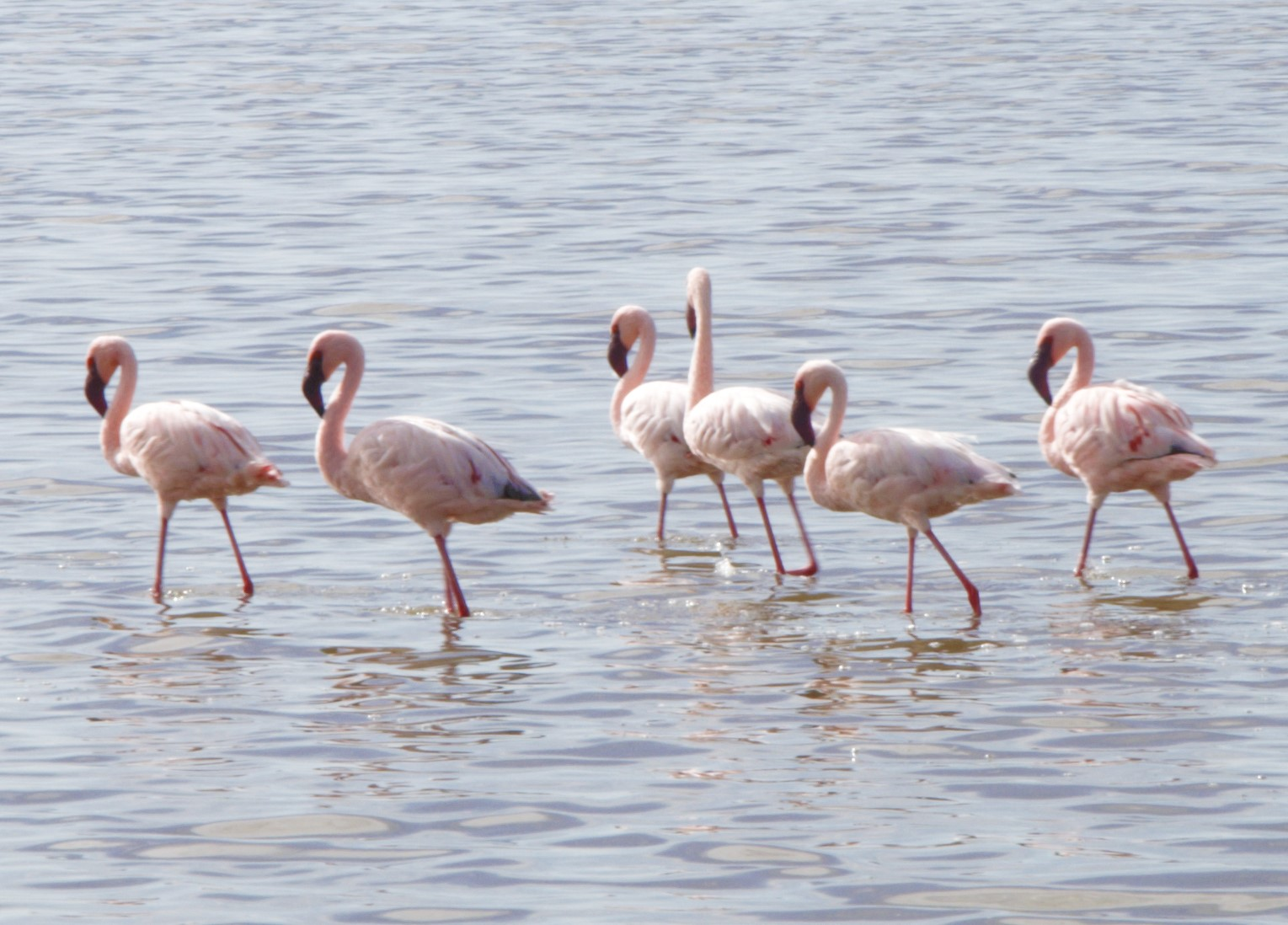 A group of flamingo in a small lake inside Serengeti plain. This p